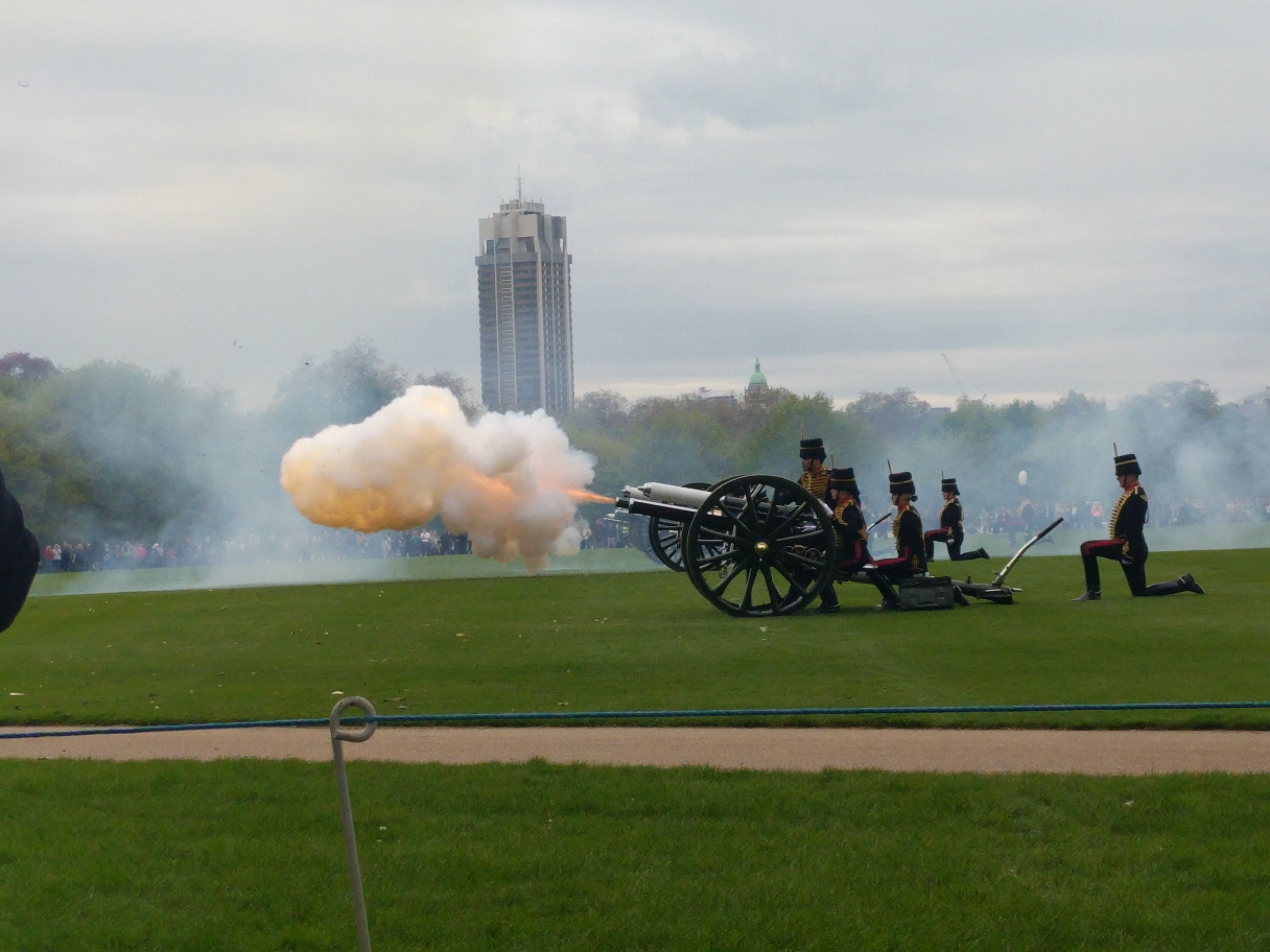 An image from the Gun Salute for the Royal Birth, held in Hyde Park on 24/04/2018